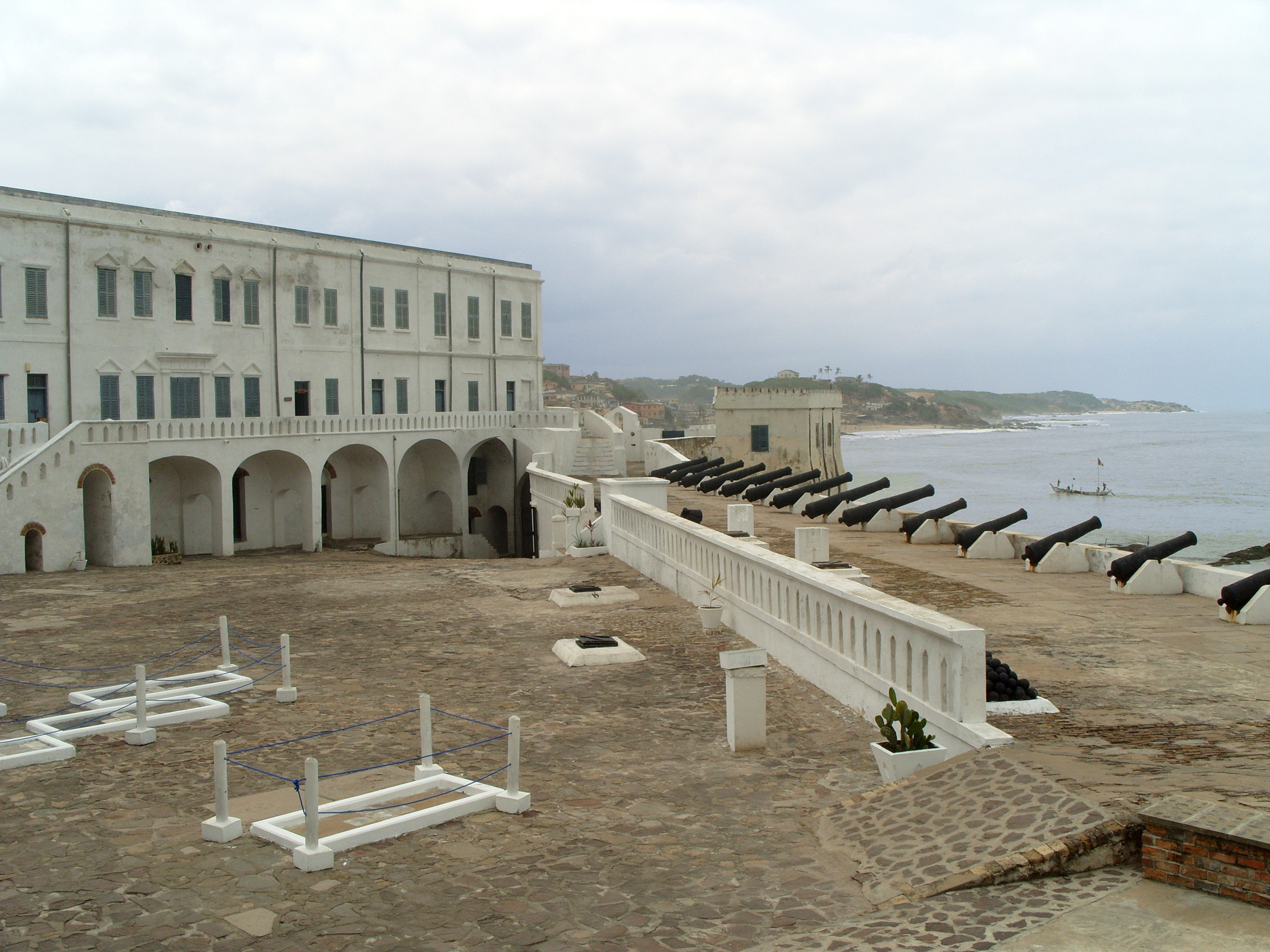 Cape Coast castle Courtyard with graves and Southeast Battery with cannons